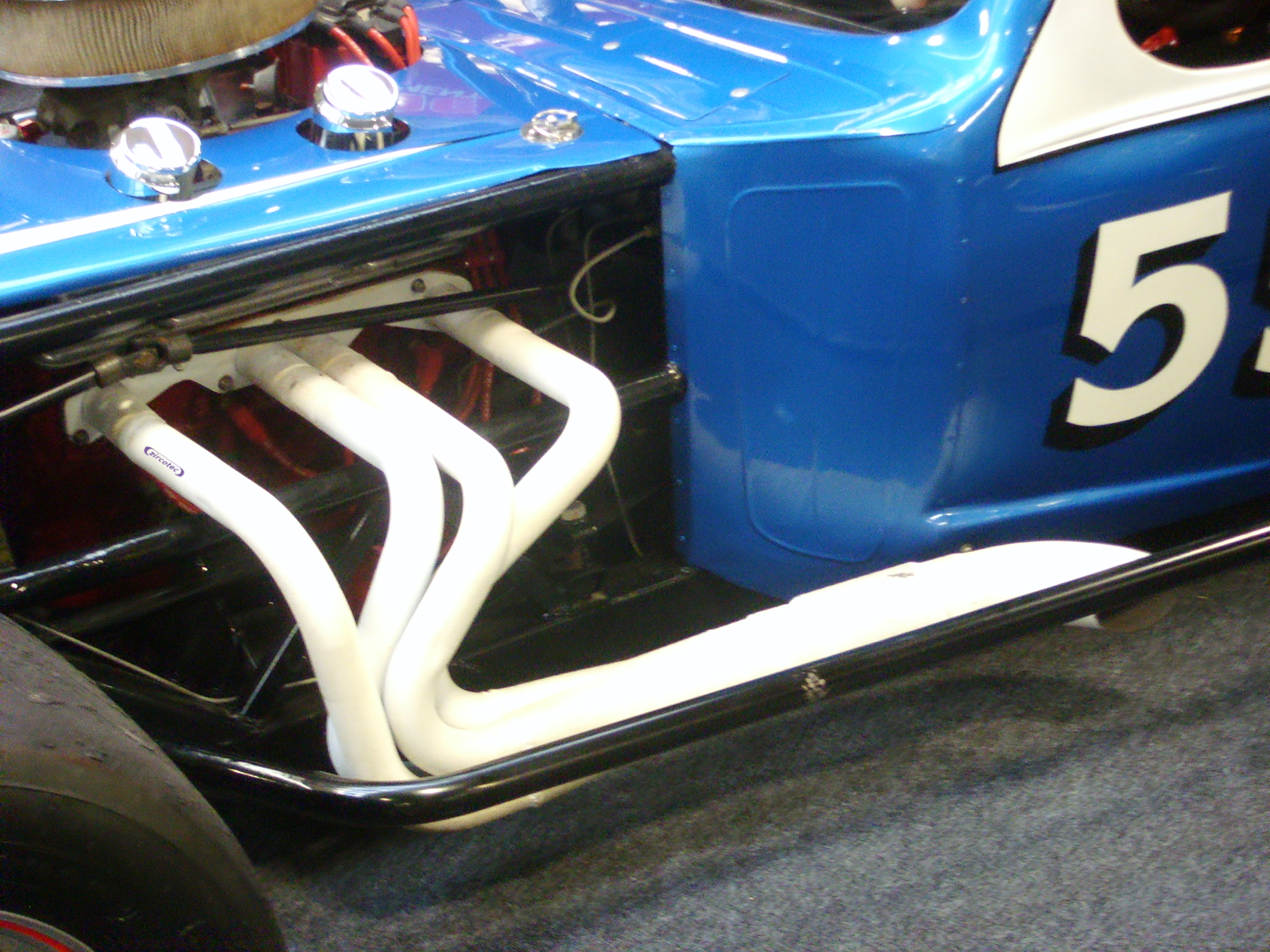 Aftermarket headers with ceramic coating insulation